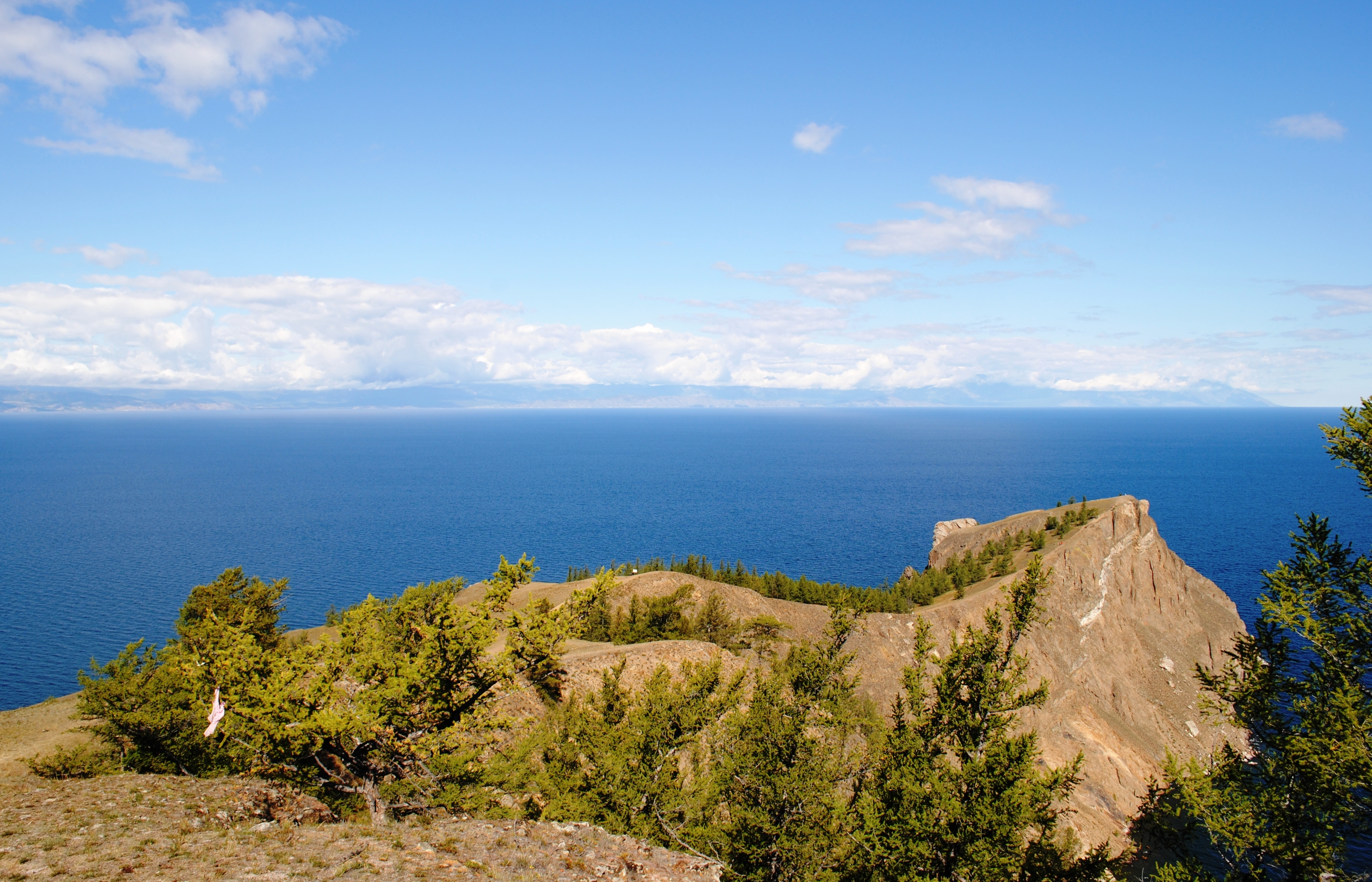 Olkhon